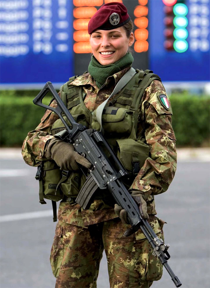 A paratrooper from the Italian Army's Folgore Parachute Brigade stands guard during the 2006 Winter Olympics in the Italian city of Turin.